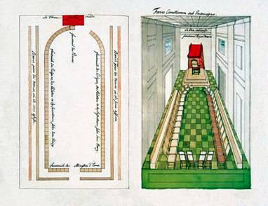 Seat arrangement in the Senate Room of the Royal Castle in Warsaw during a regular sejm and a view of that room during a convocation sejm